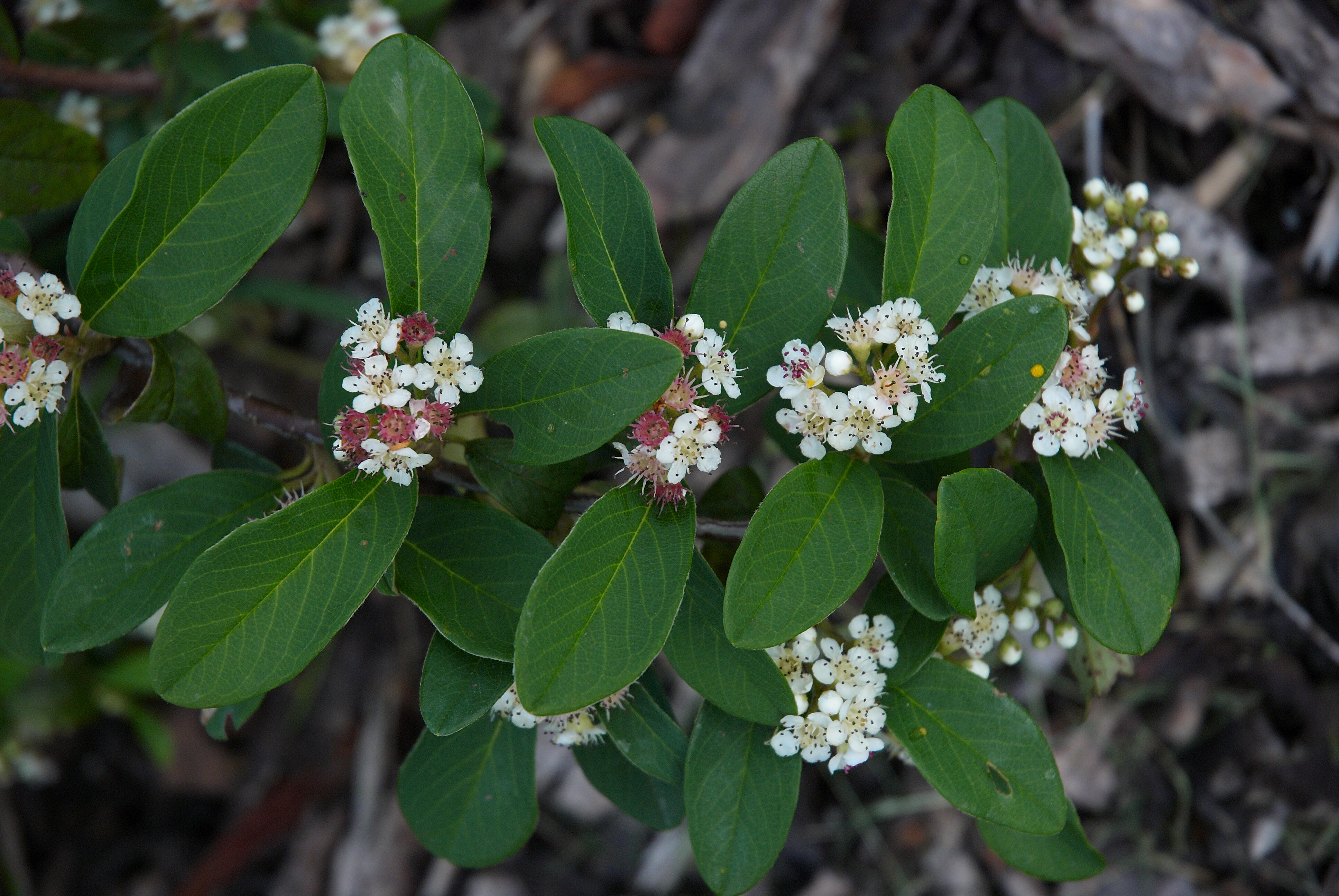 Cotoneaster × watereri 'Pendulus' Other photos of the same plant Cotoneaster × watereri G.jpg